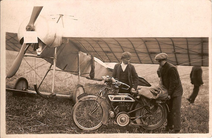 The first Blackburn Type I during exhibition flights in 1913 or 1914.